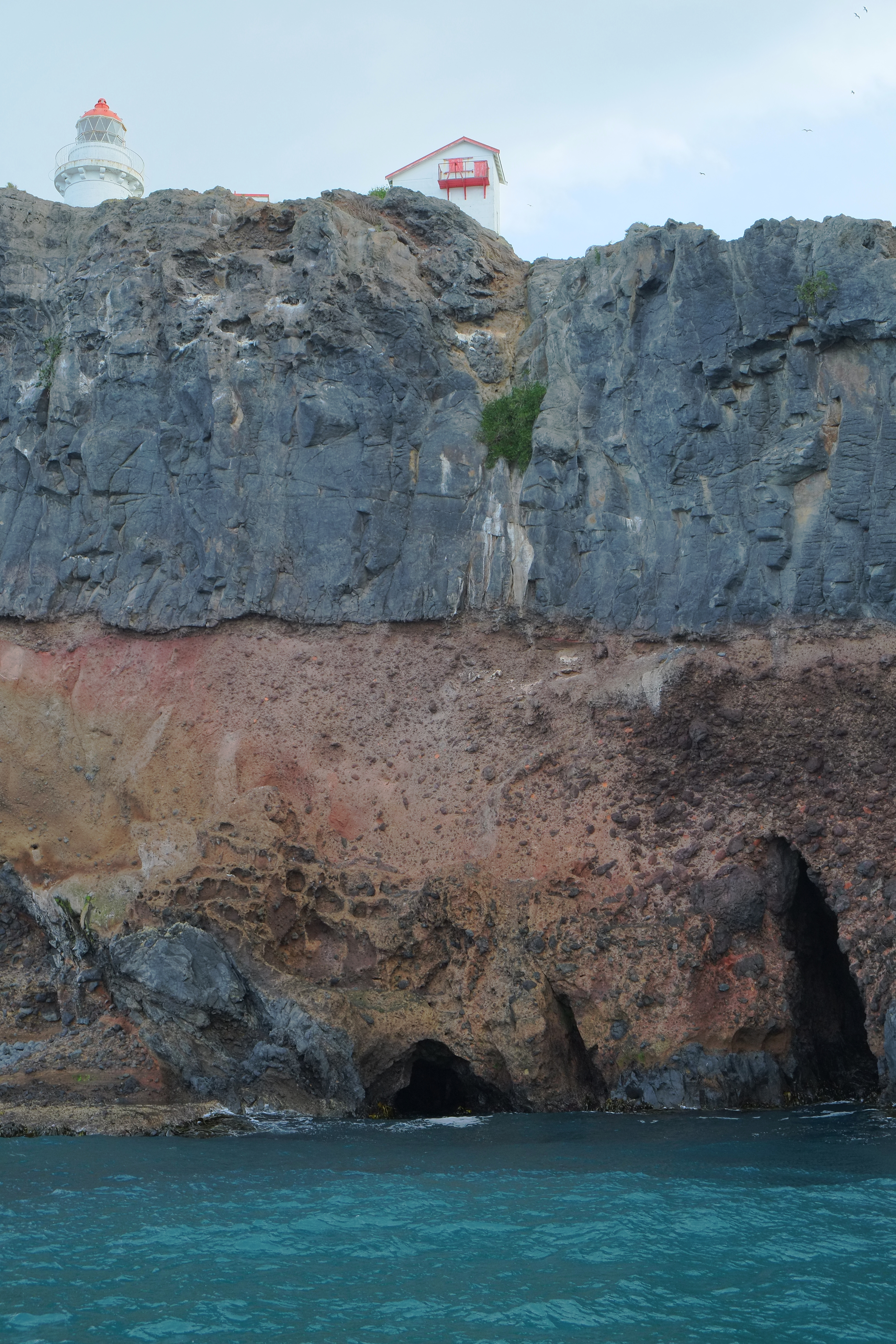 Lighthouse above cliffs at Taiaroa Head